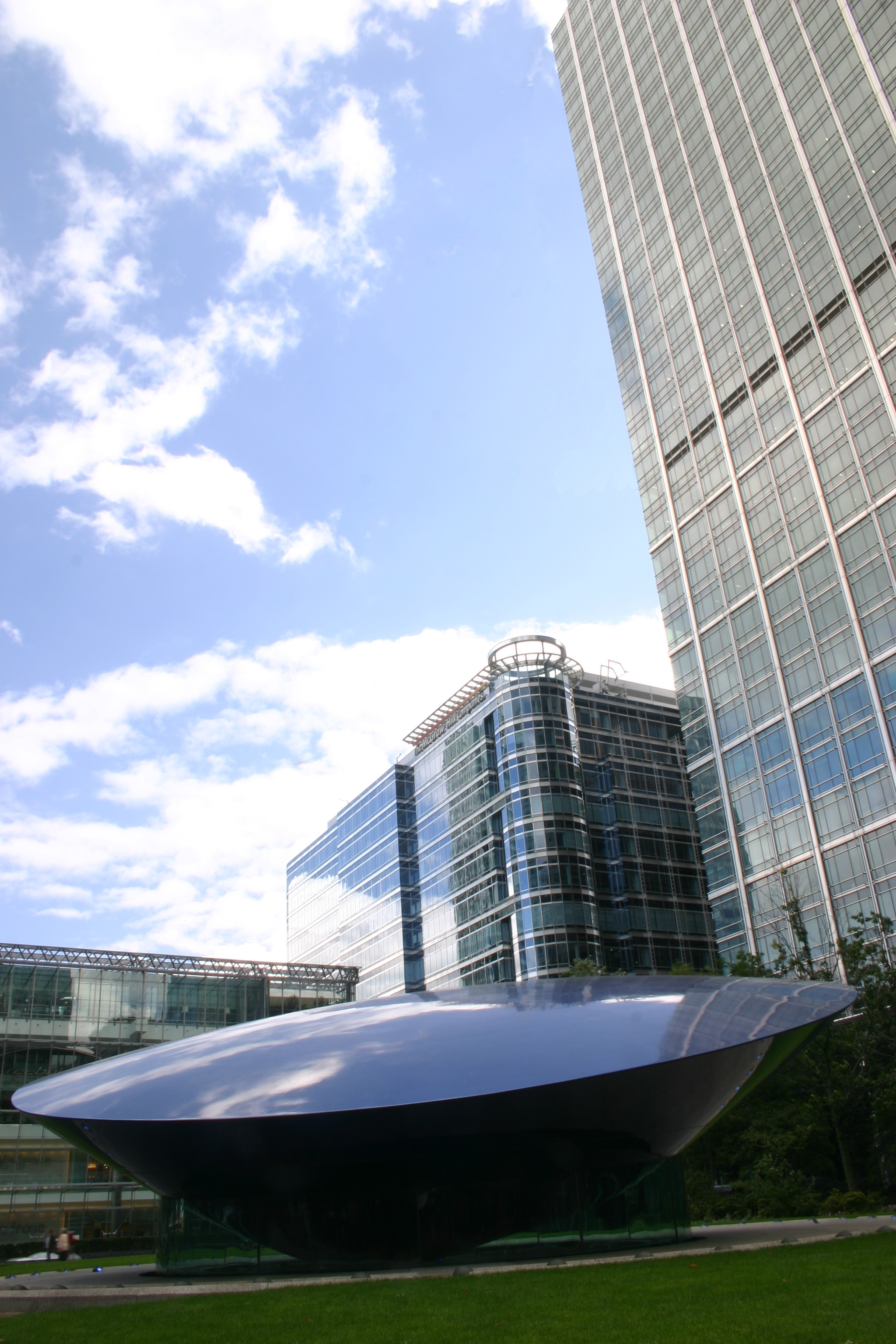 Sculpture The Big Blue (2000) by Ron Arad on Canada Square. On the right is the Citygroup building, and on the left is Waitrose. Behind the camera is Canary Wharf's One Canada Square. Uploaded the original image first, then overwritten with editted.